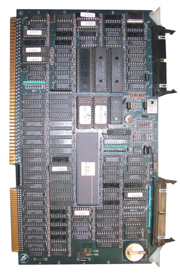 Sun Microsystems, P/N 501-1051 Multibus Prime CPU Board